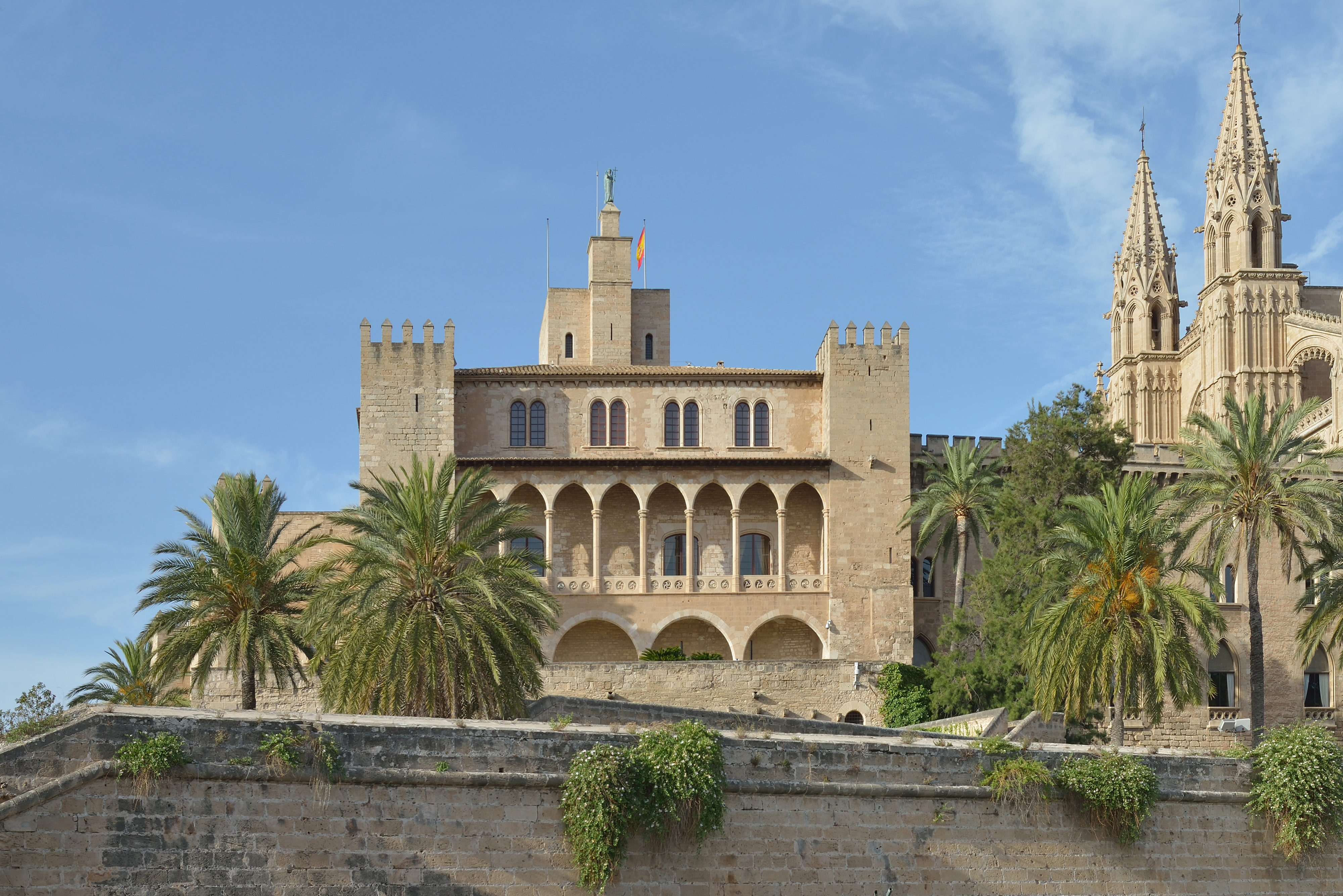 Royal Palace of La Almudaina and the Palma Cathedral in Palma de Mallorca.